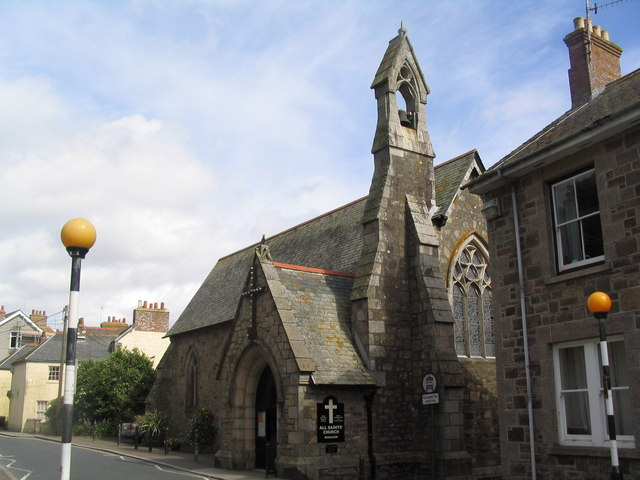 Church of All Saints, Marazion